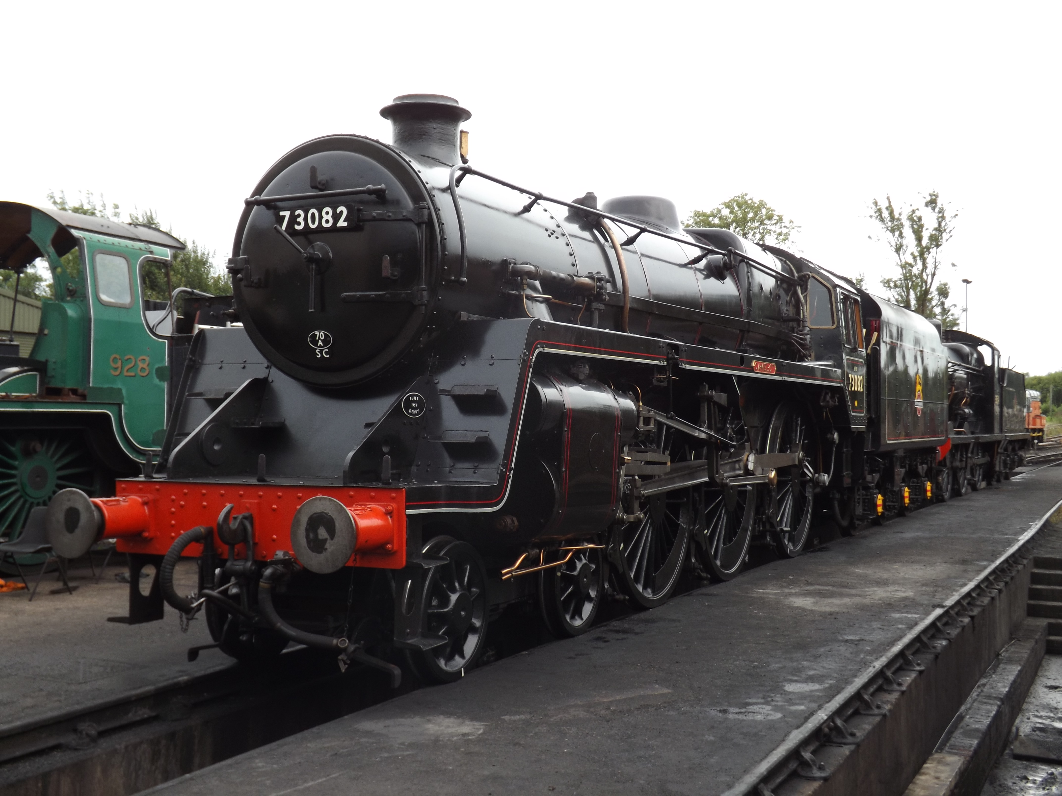 BR Standard Class 5 No. 73082 'Camelot' on shed at Sheffield Park on the Buebell Railway.